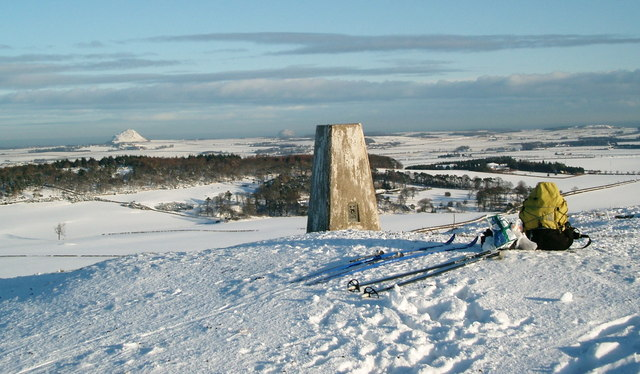 NE from the Garleton Hills North Berwick Law and the Bass Rock from the 186m trig point in the Garleton Hills. A rare day of sunshine, blue skies, still air and -11C.